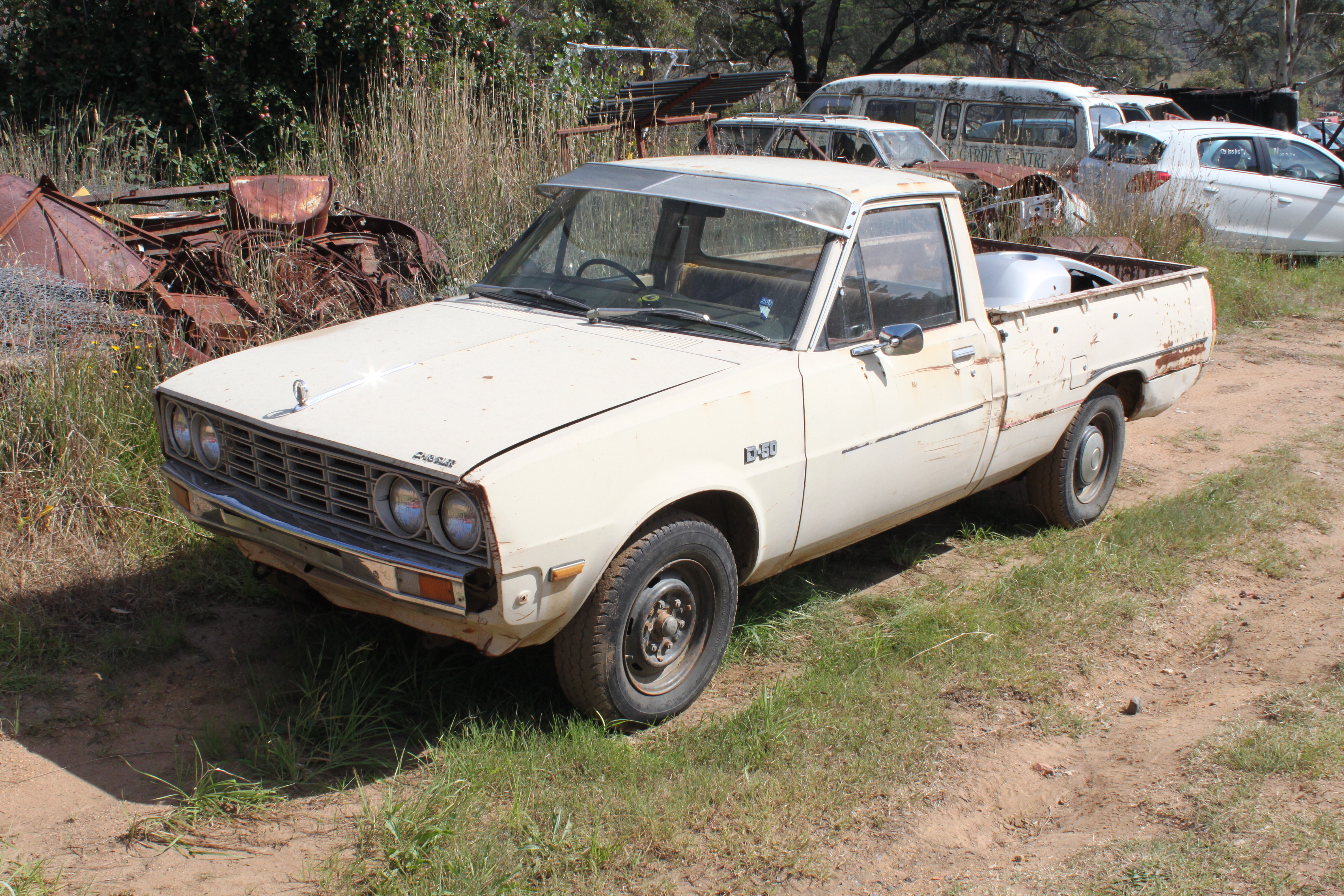 Flynn's Wrecking Yard, Cooma, NSW